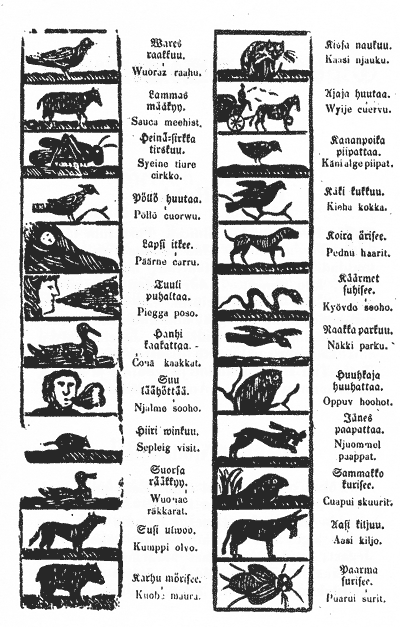 Page from finnish-inari sami alphabet book, published 1859, creator E.W Borg